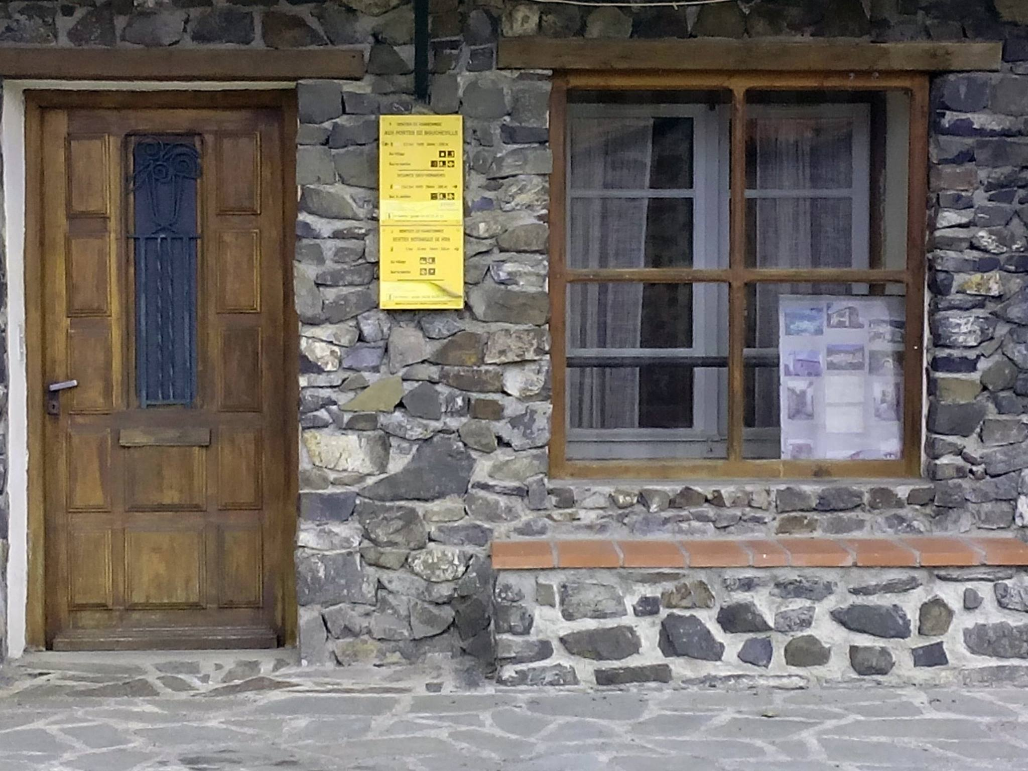 The former town hall in Vira